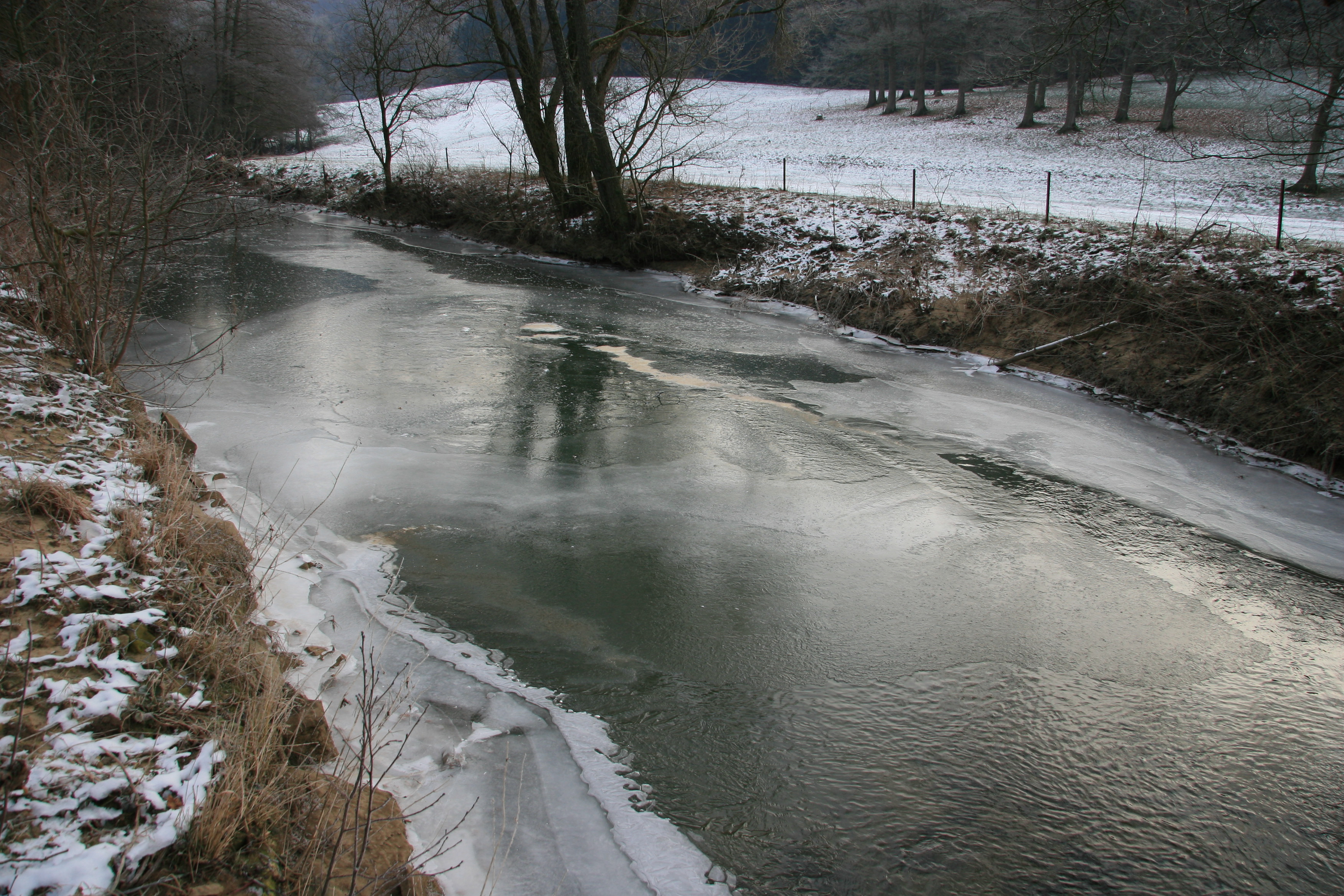 The Mamer river near Schoenfels Castle, slowly freezing over